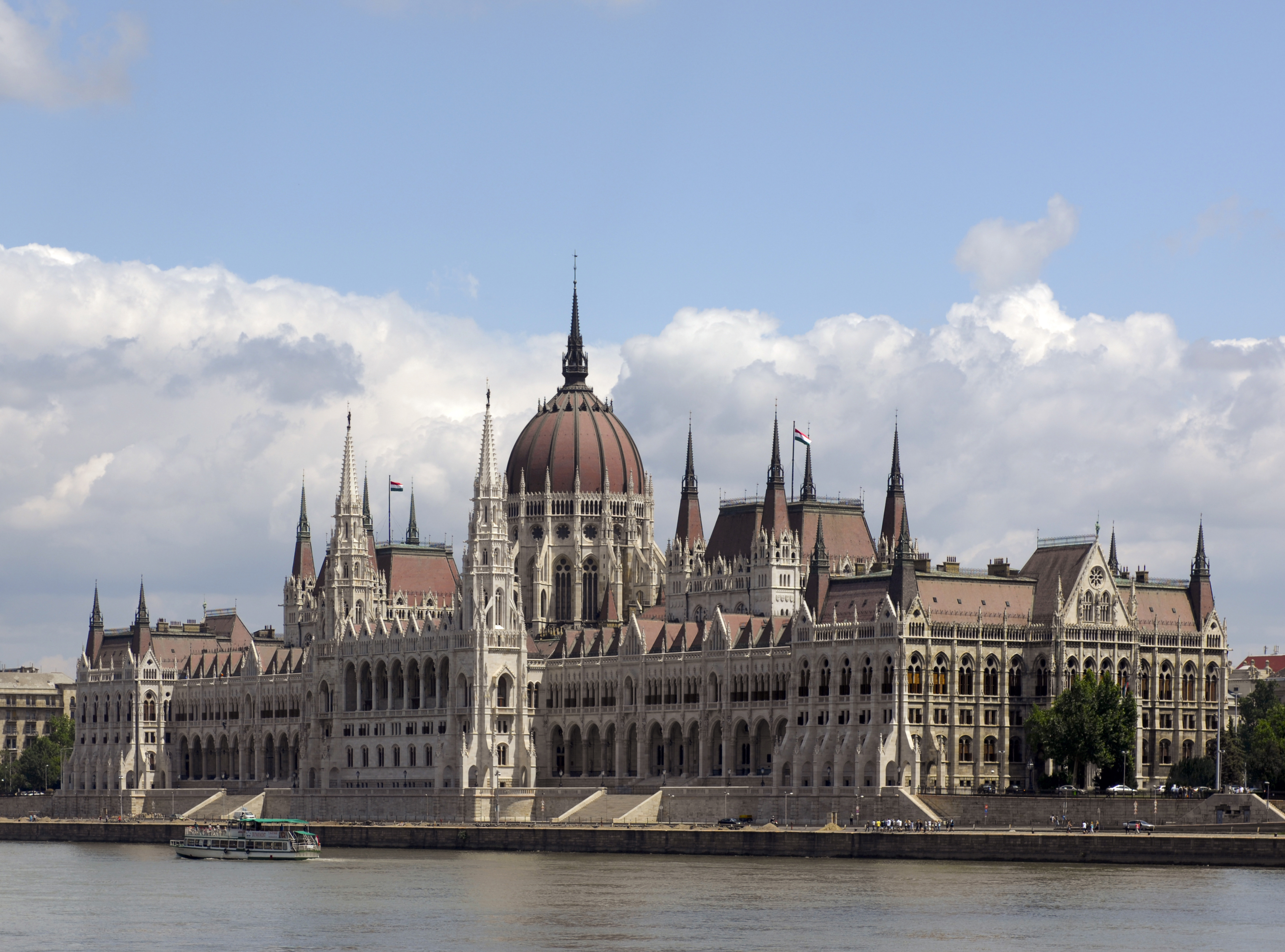 Hungarian ParliamentBuilding, Budapest, Hungary, 2011.